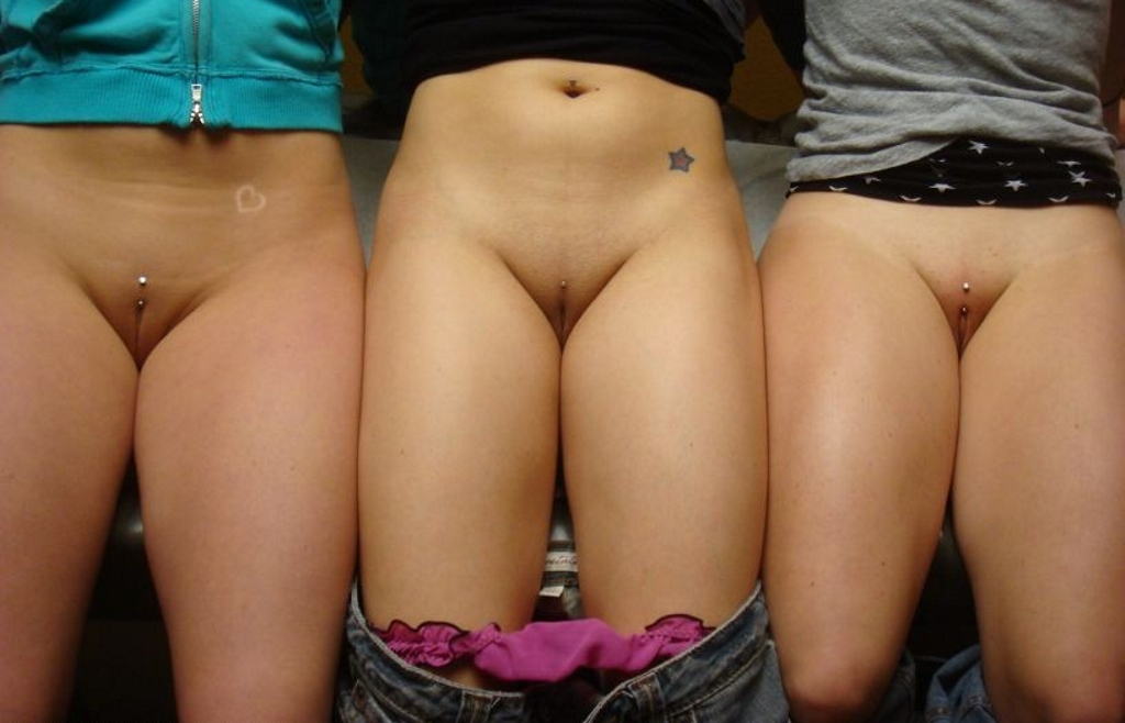 Girls with Christina (left and right) and Nefertiti (center) piercing